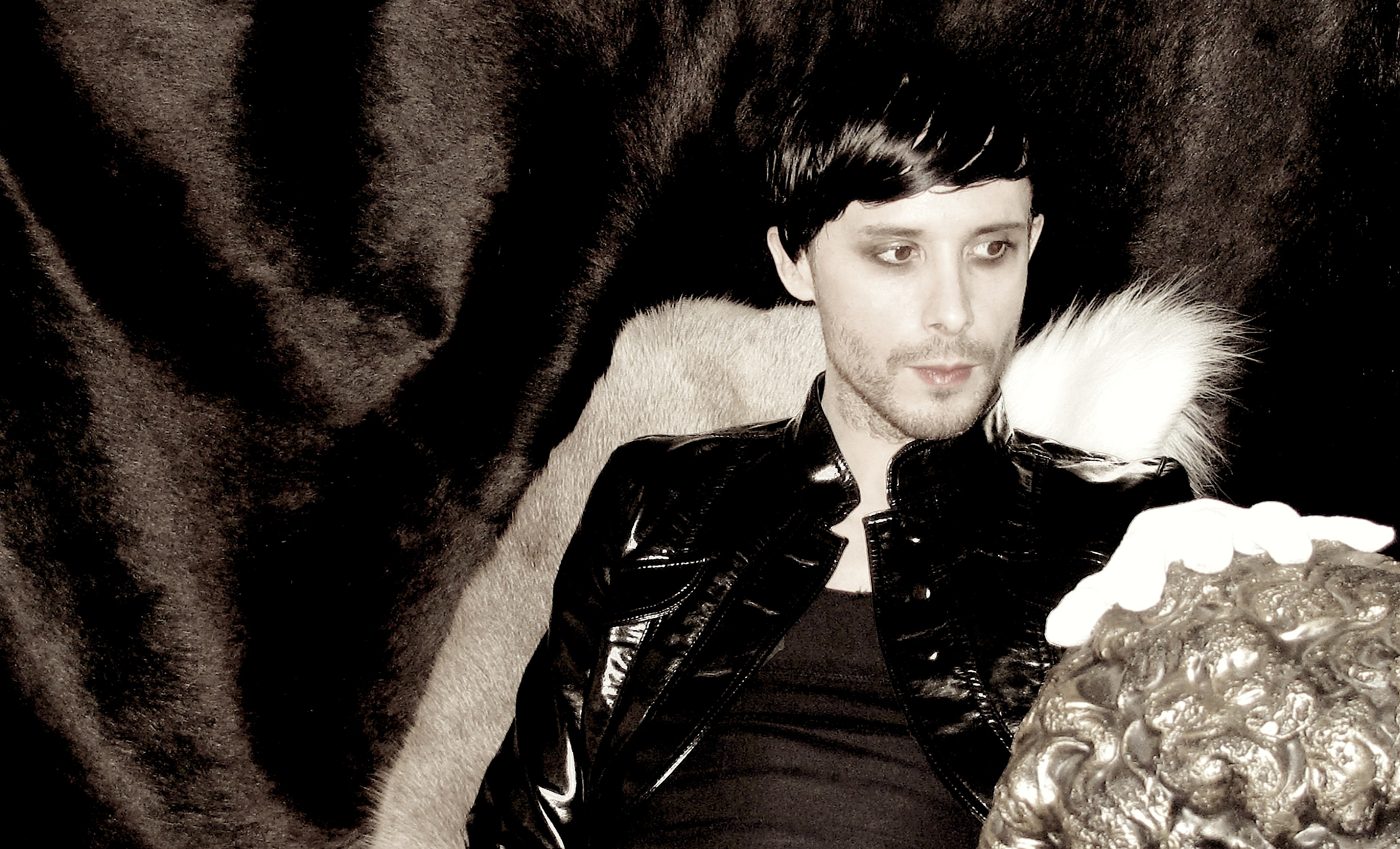 Photo taken of Chris Corner at IAMX headquarters in July 2009.